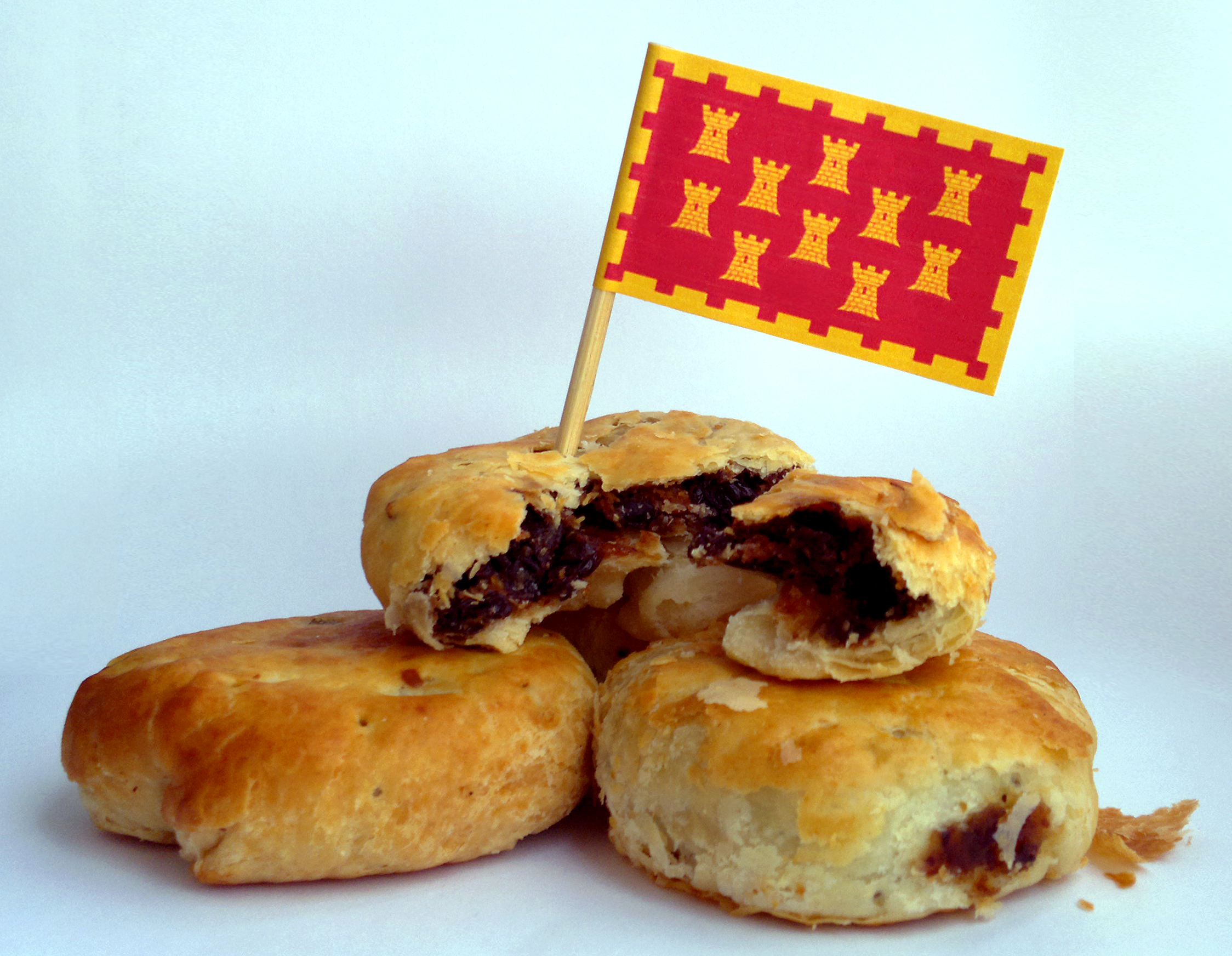 Eccles Cakes with the Flag of Greater Manchester